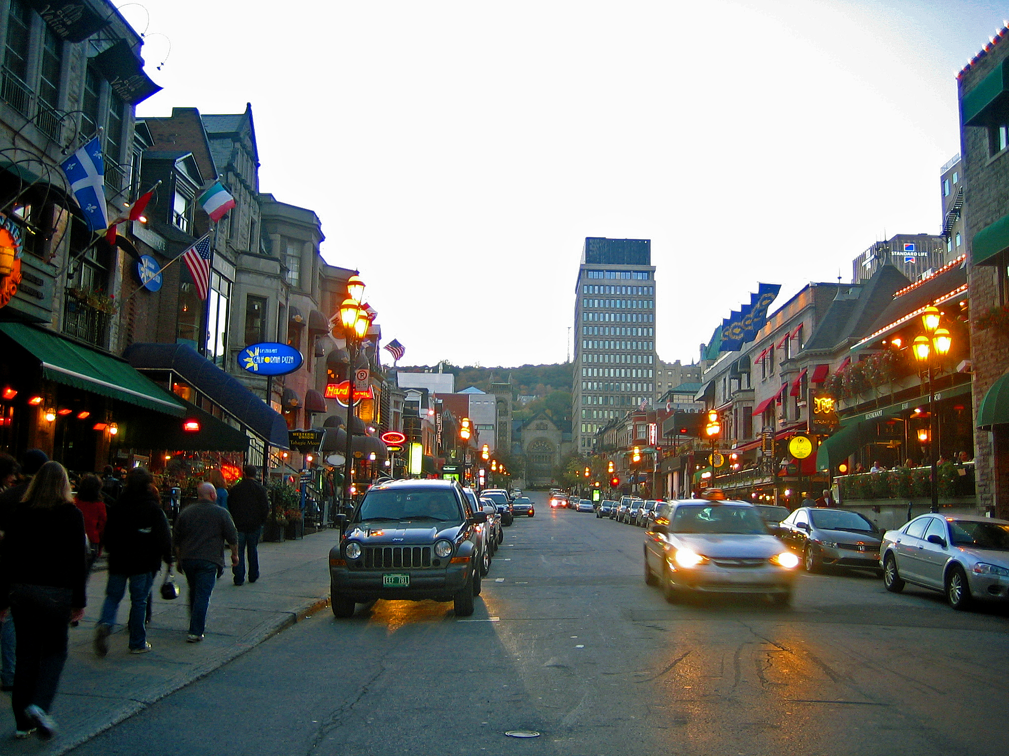 A general view of downtown Crescent Street with Mount Royal in the background. This image can be used for any purpose.